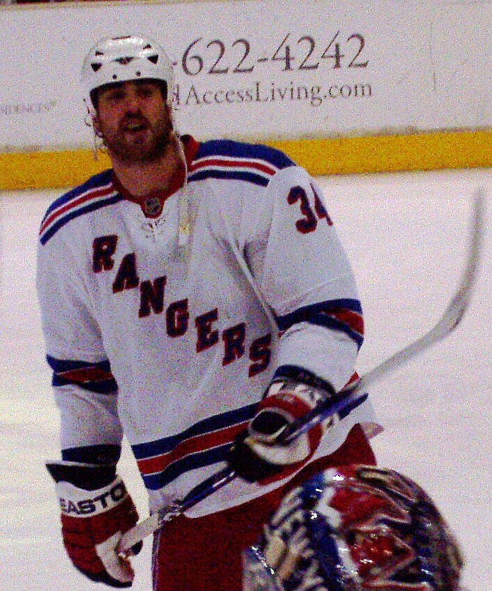 Aaron Voros during pre-game warmup in Los Angeles, CA